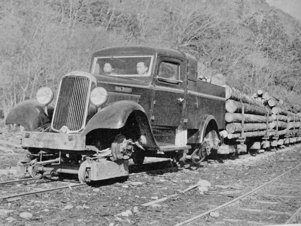 Dodge Road–rail vehicle for timber transport (Wakinosawa, Aomori).